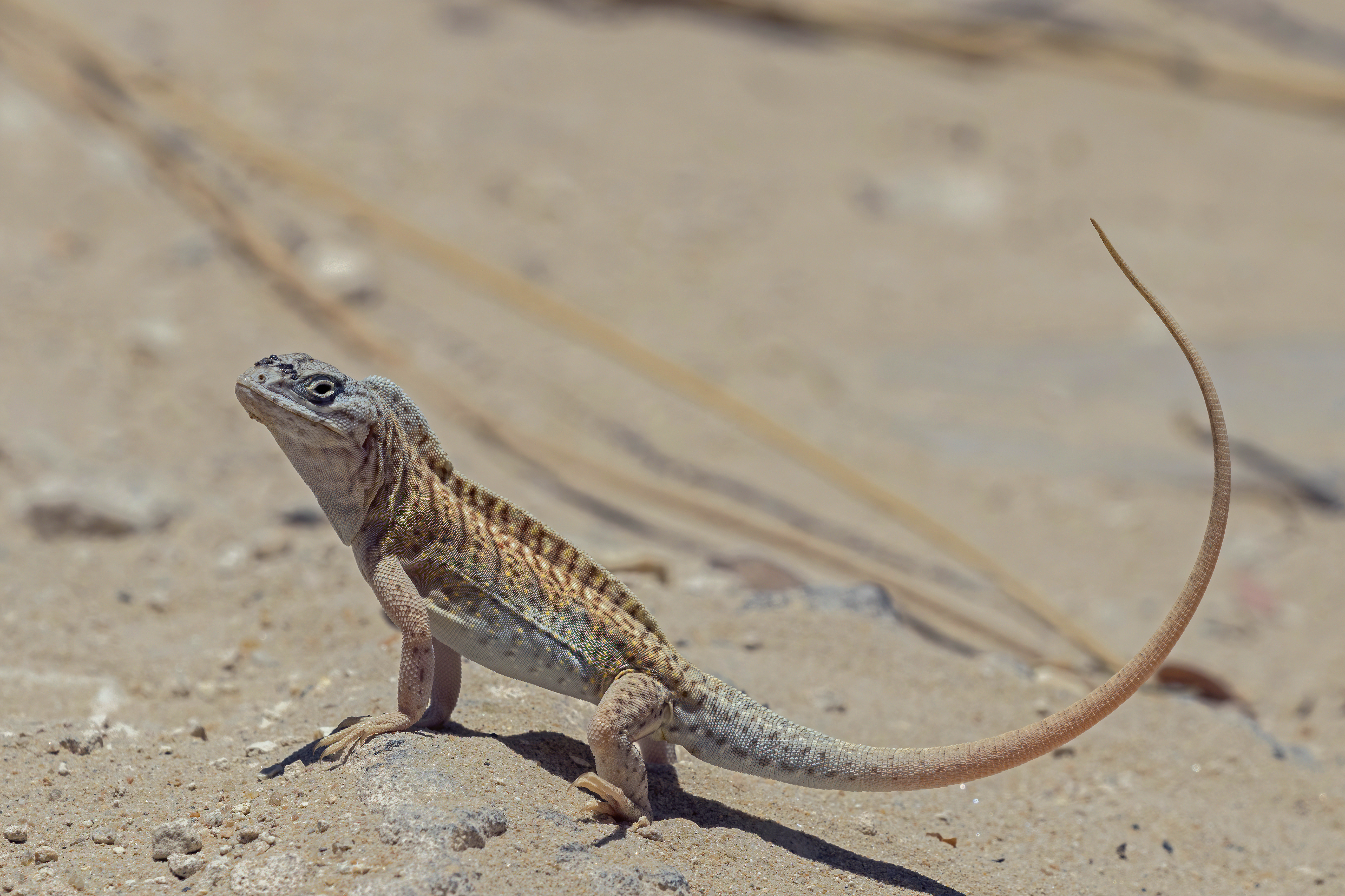 Three-eyed lizard (Chalarodon madagascariensis) male, Toliara, Madagascar